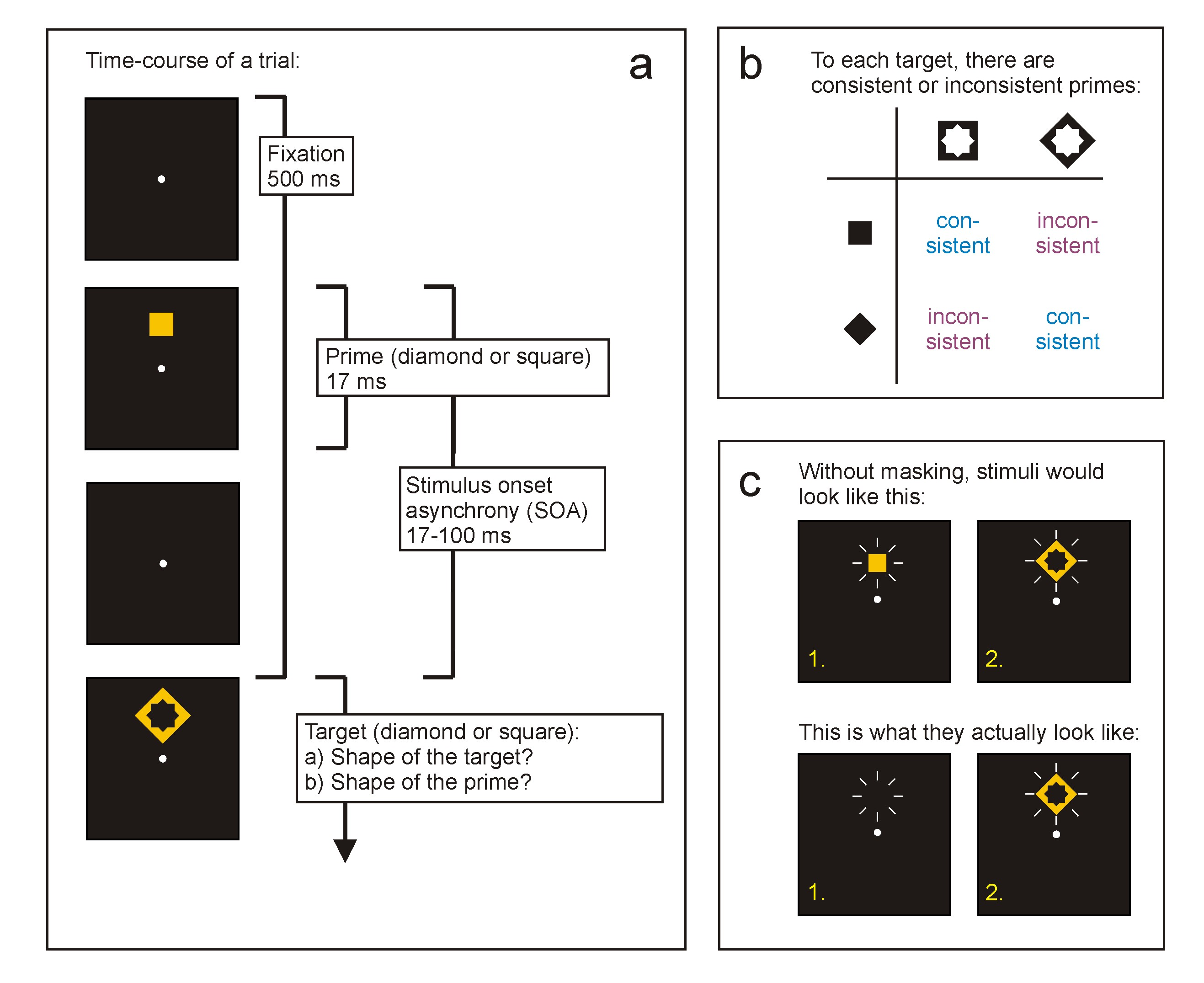 Time course of trials in Response priming